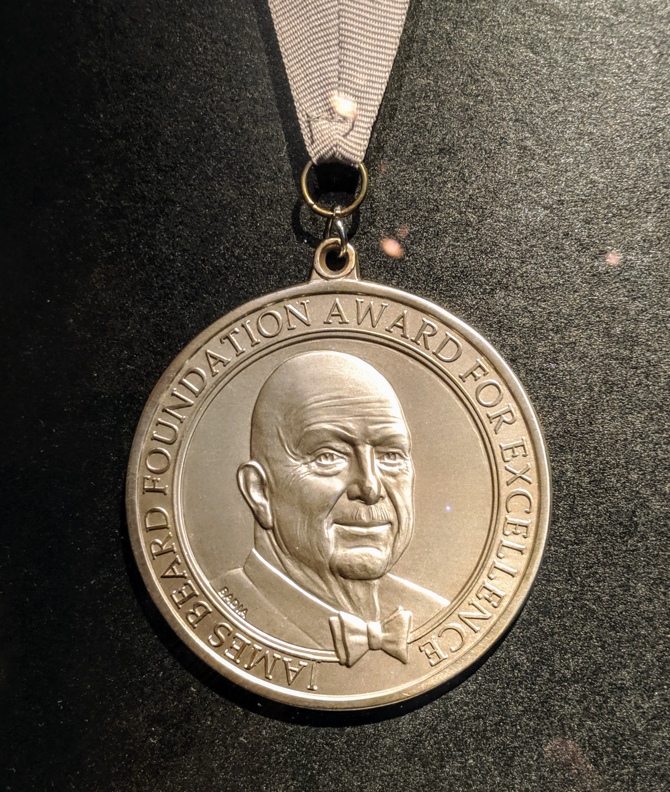 Award medallion on display at Frank Fat's restaurant in Sacramento. Photo by Jim Heaphy.